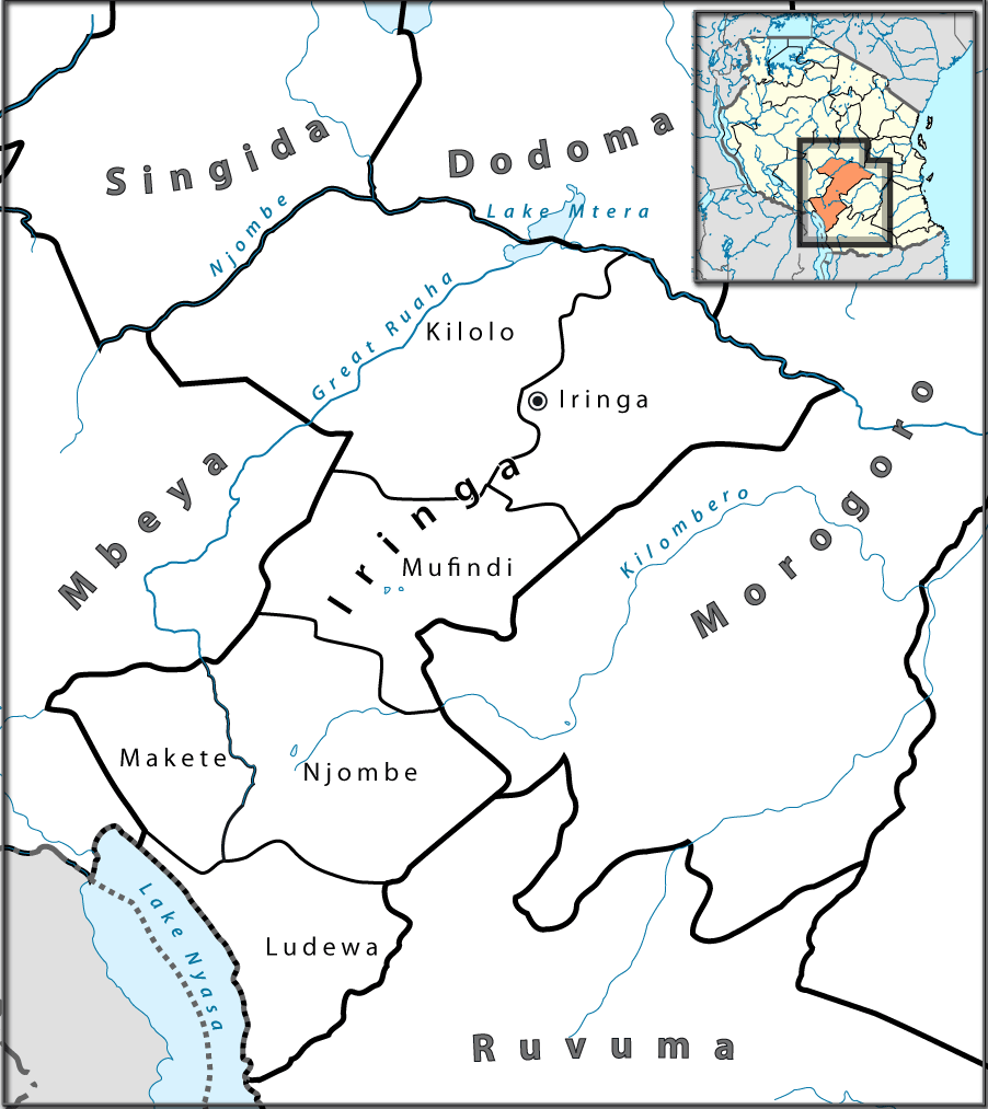 Location map of Tanzania.